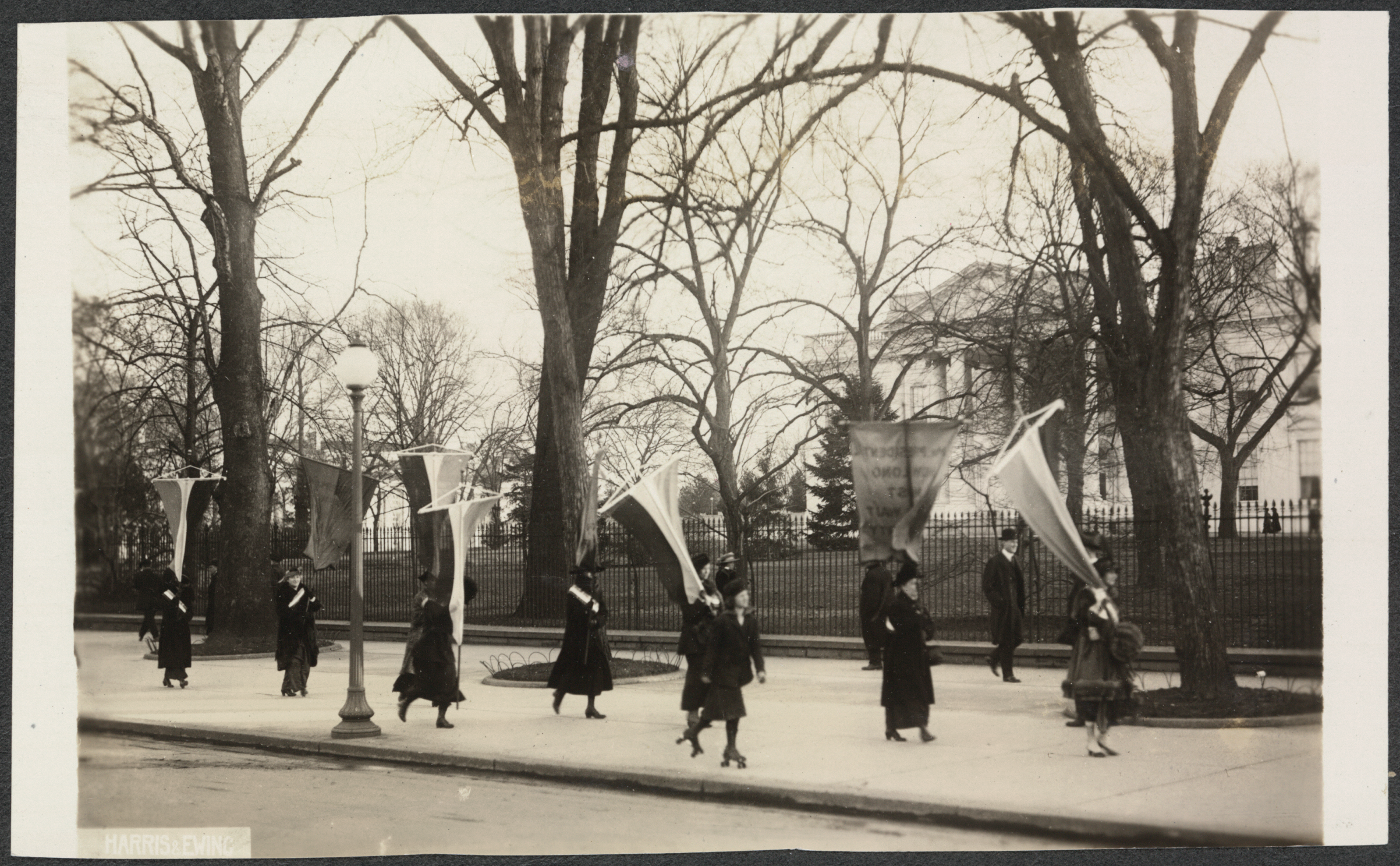 Silent Sentinels of Maryland picket the White House for suffrage in early 1917. Suffragettes are shown during the "Maryland Day" picket. A woman on roller skates is in the foreground. A man in a bowler hat is walking in the background.